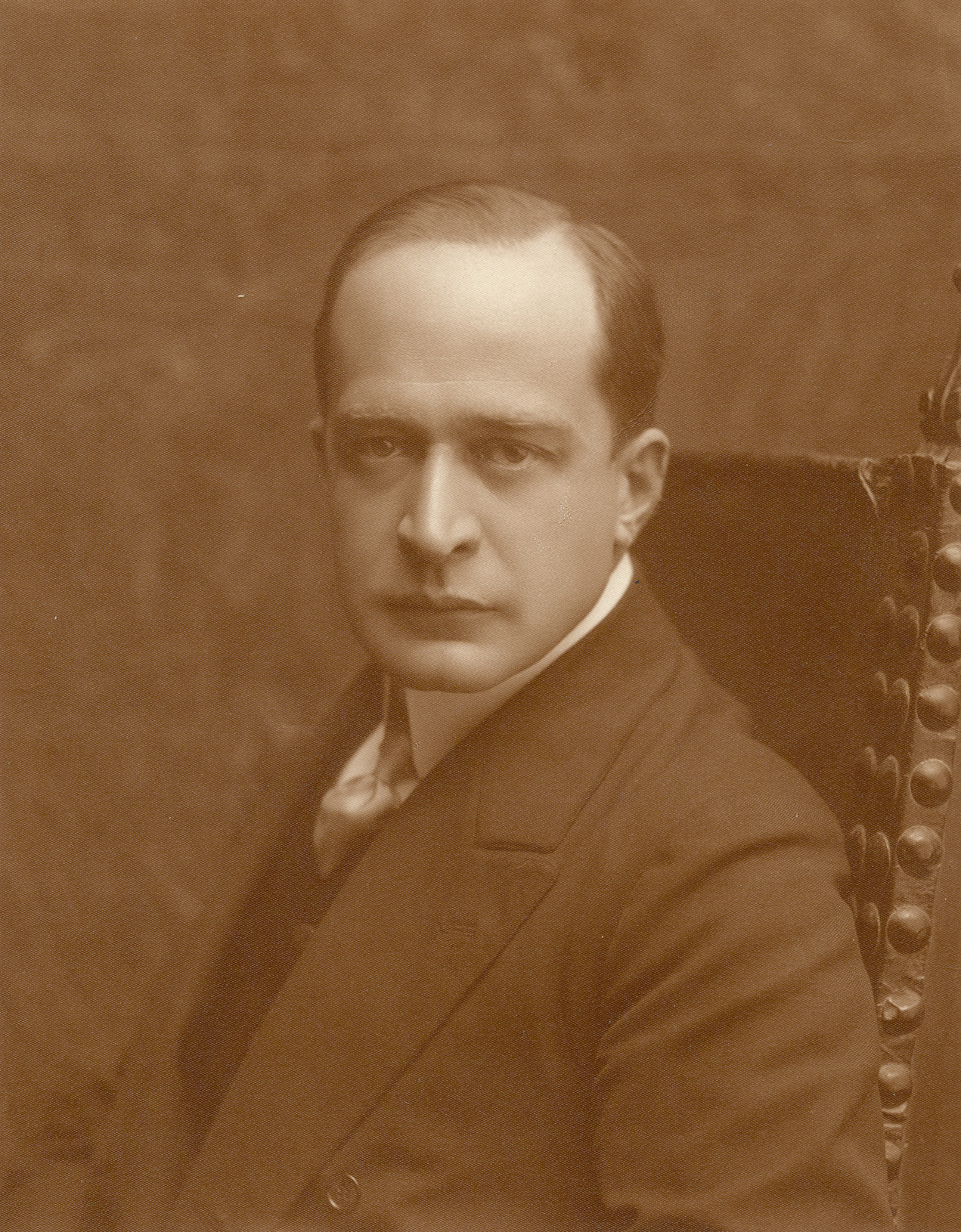 Portrait of Tito II Ricordi, publisher (1865-1933). Photo by Studio Bertieri, Torino, before 1933.